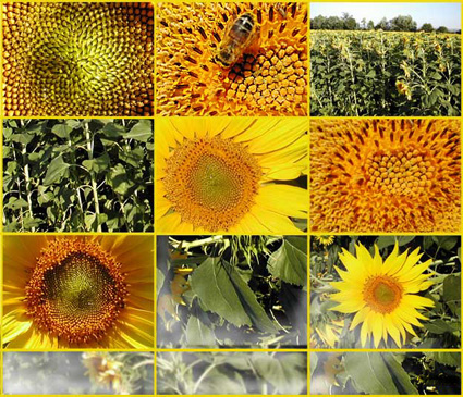 Sunflower